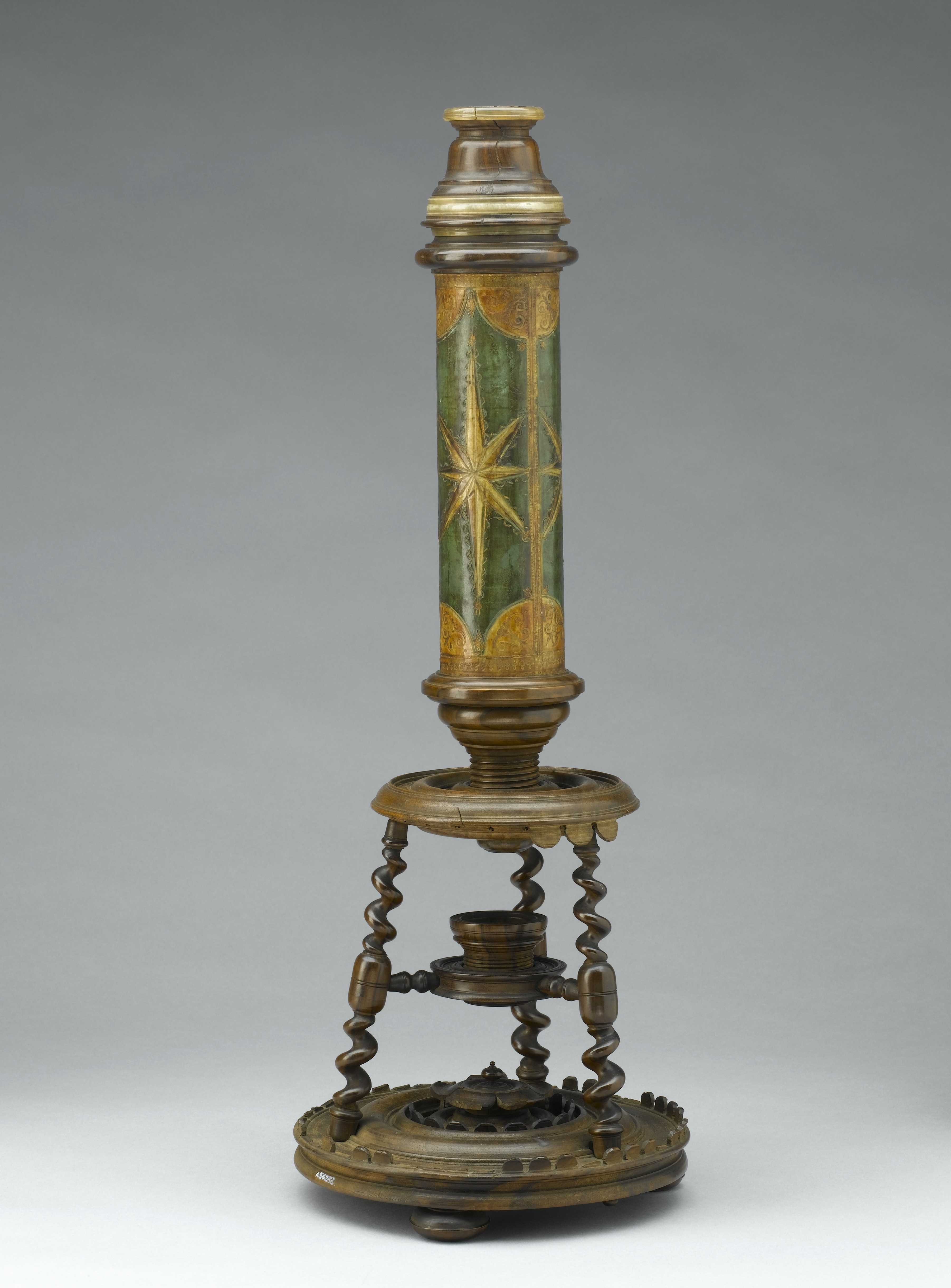 This ornate compound microscope was made around a century after the first prototype microscopes of this type were allegedly developed by Dutch eye-glass maker Zaccharias Janssen and his son Hans – this claim is the subject of some dispute. Unlike single lens microscopes, compound microscopes contain at least two lenses. The tube of this microscope is covered in vellum – a fine type of parchment made from the skin of a young calf or goat. The mount is made from walnut. This microscope may have been a source of entertainment and used to study a wide variety of animals, vegetables and minerals. It is only since the 1800s that microscopes have become central to medicine. maker: Unknown maker Place made: Europe Medical Photographic Library Keywords: compound microscope; Microscopy; monocular microscope